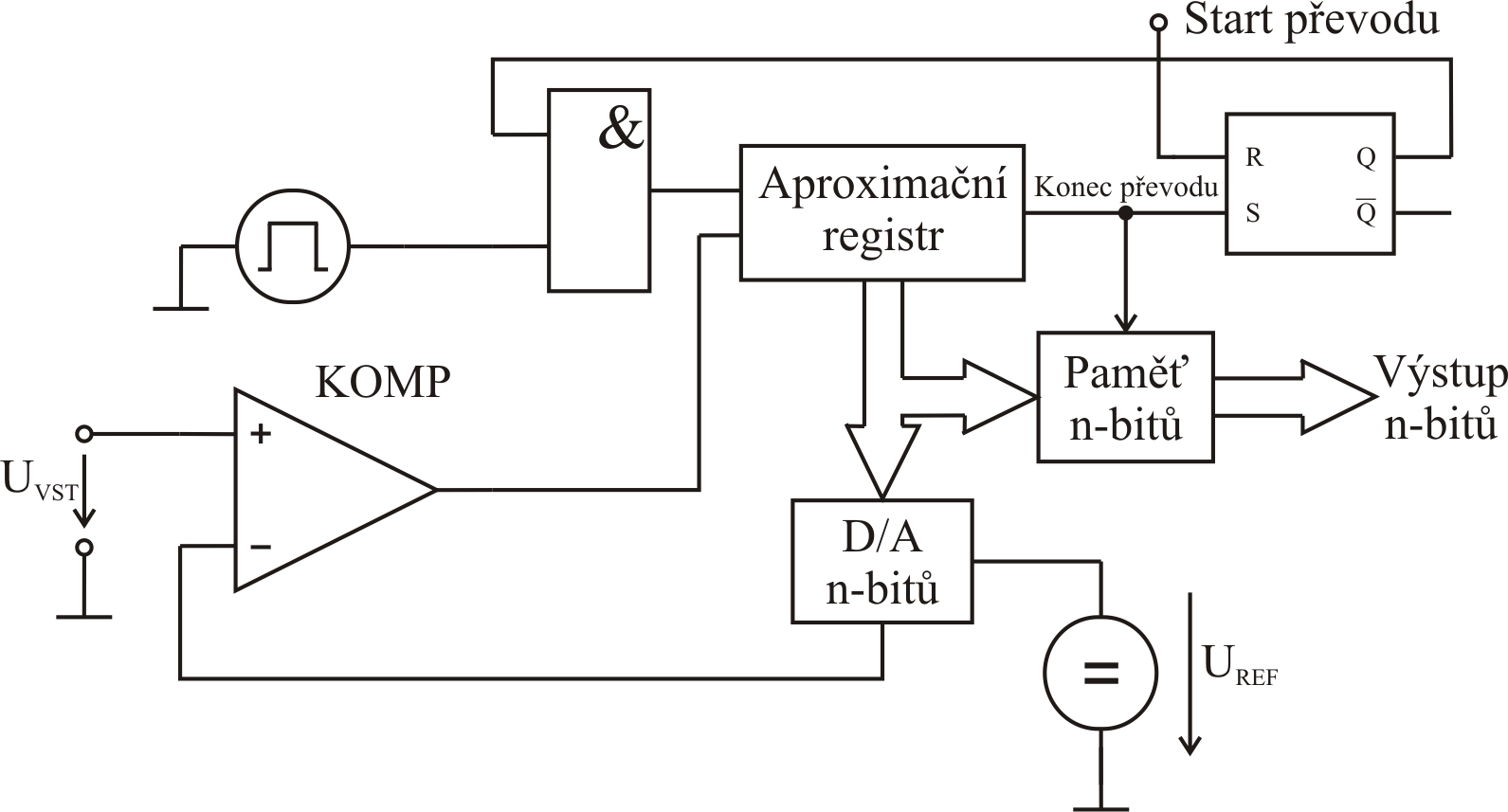 ADC